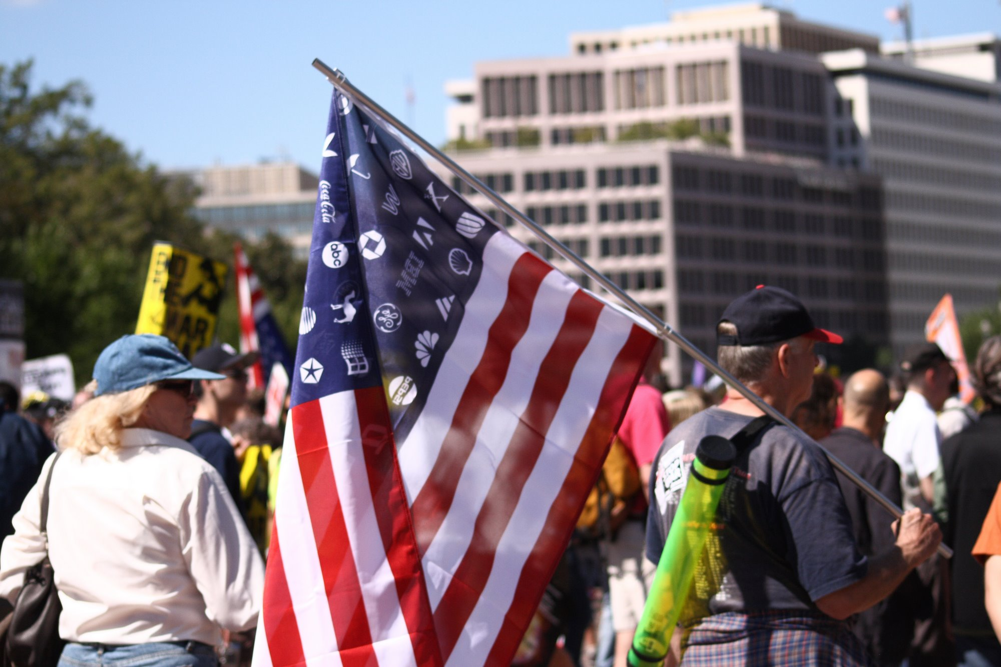 Protesters at the September 15, 2007 anti-war protest in Washington, D.C., including a man holding an American flag with corporate logos substituted for stars